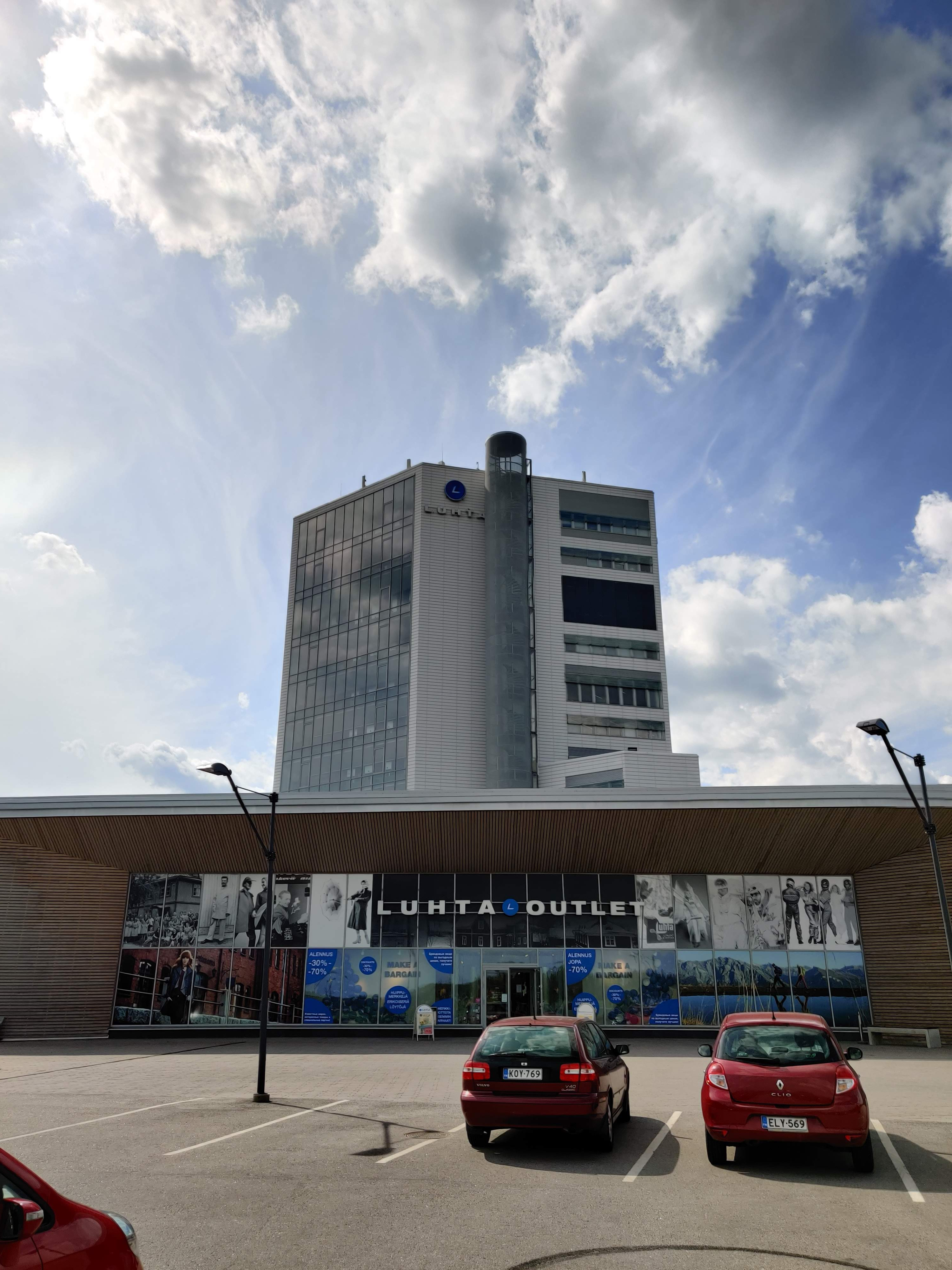 Headquarters of Luhta Sportswear Company in Lahti, Finland